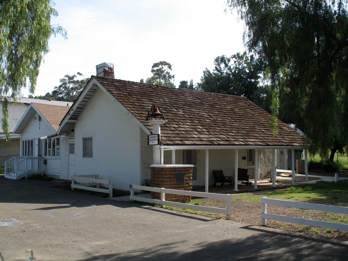 Hubert H. Bancroft Ranch House, a historic building in San Diego County, California.